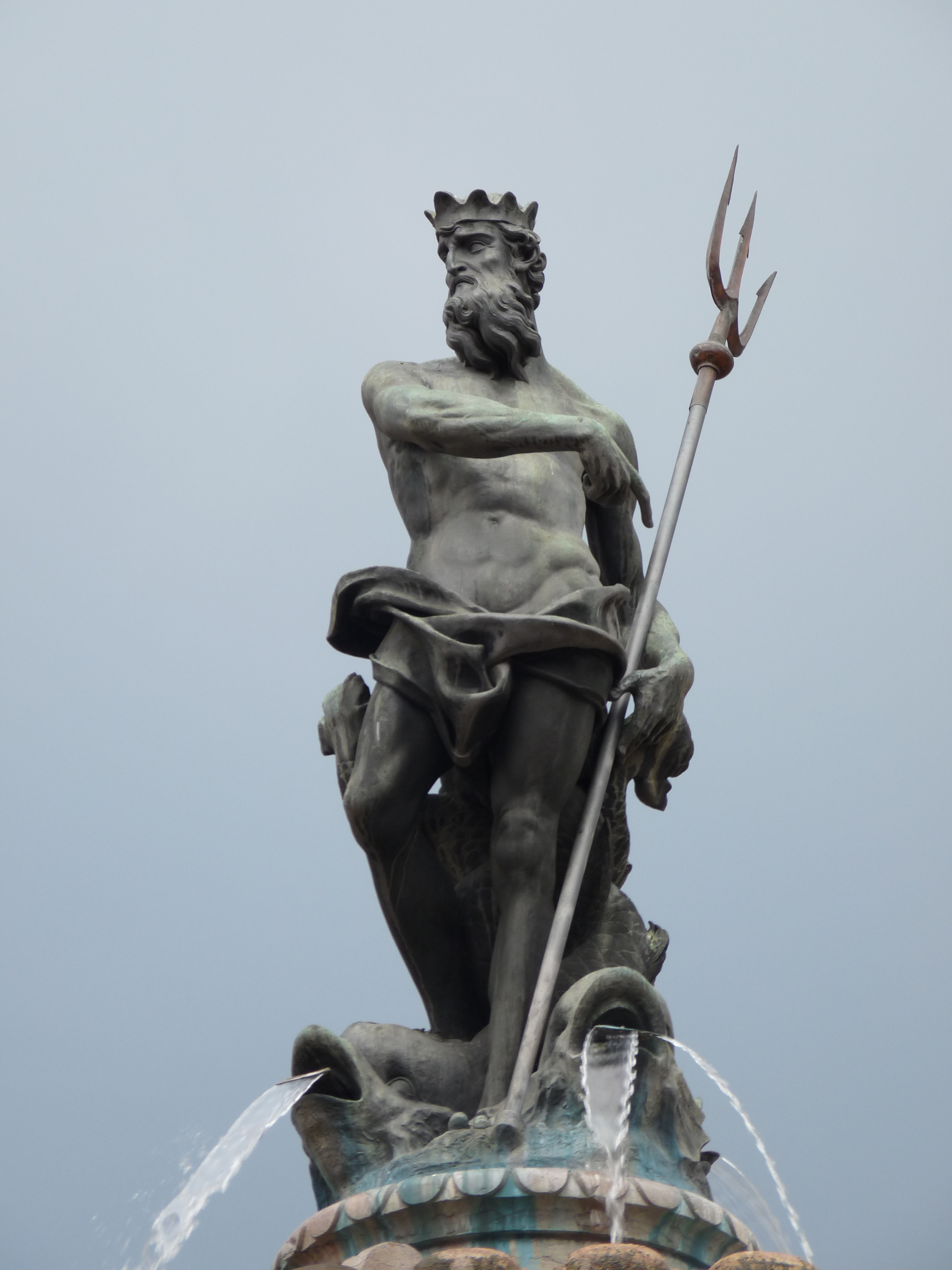 Trento (Italy): bronze statue on the top of the fountain of Neptune in piazza del Duomo. The statue is a bronze copy of the original by Stefano Salterio da Como, XVIII century, which, in 1940, has been placed in the courtyard of palazzo Thun (the city hall).